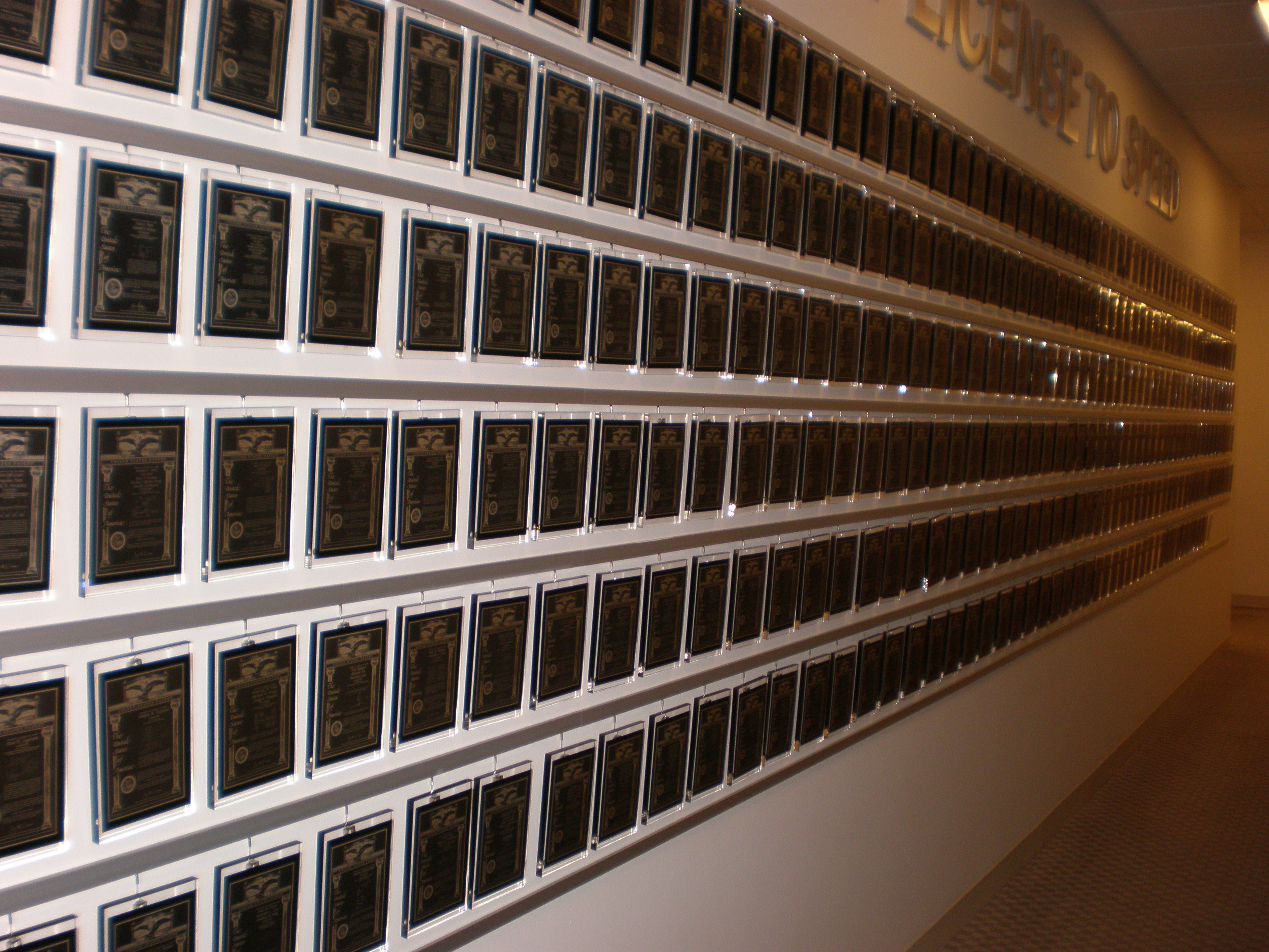 A section of a wall in the Rambus headquarters in Los Altos, California of plaques marking the issuance of U.S. patents to Rambus.